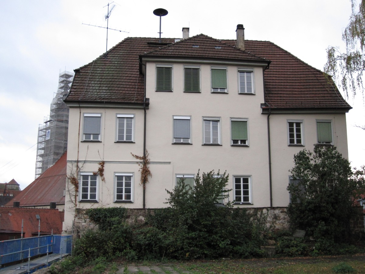 Old Schoolhouse in Tübingen (Germany)